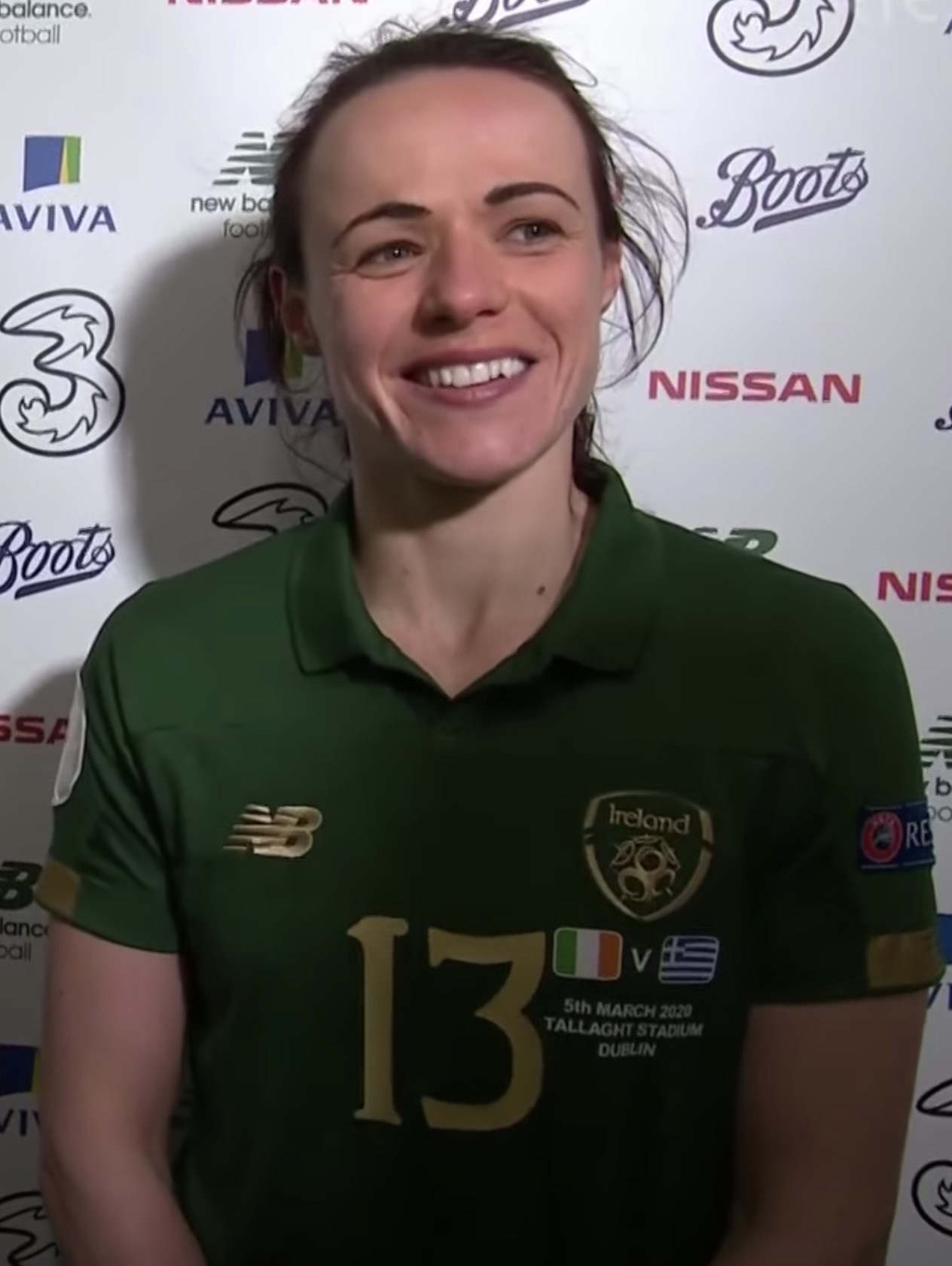 Katie McCabe and Aine O'Gorman of the Republic of Ireland interviewed by RTE after their match against Greece in March 2020